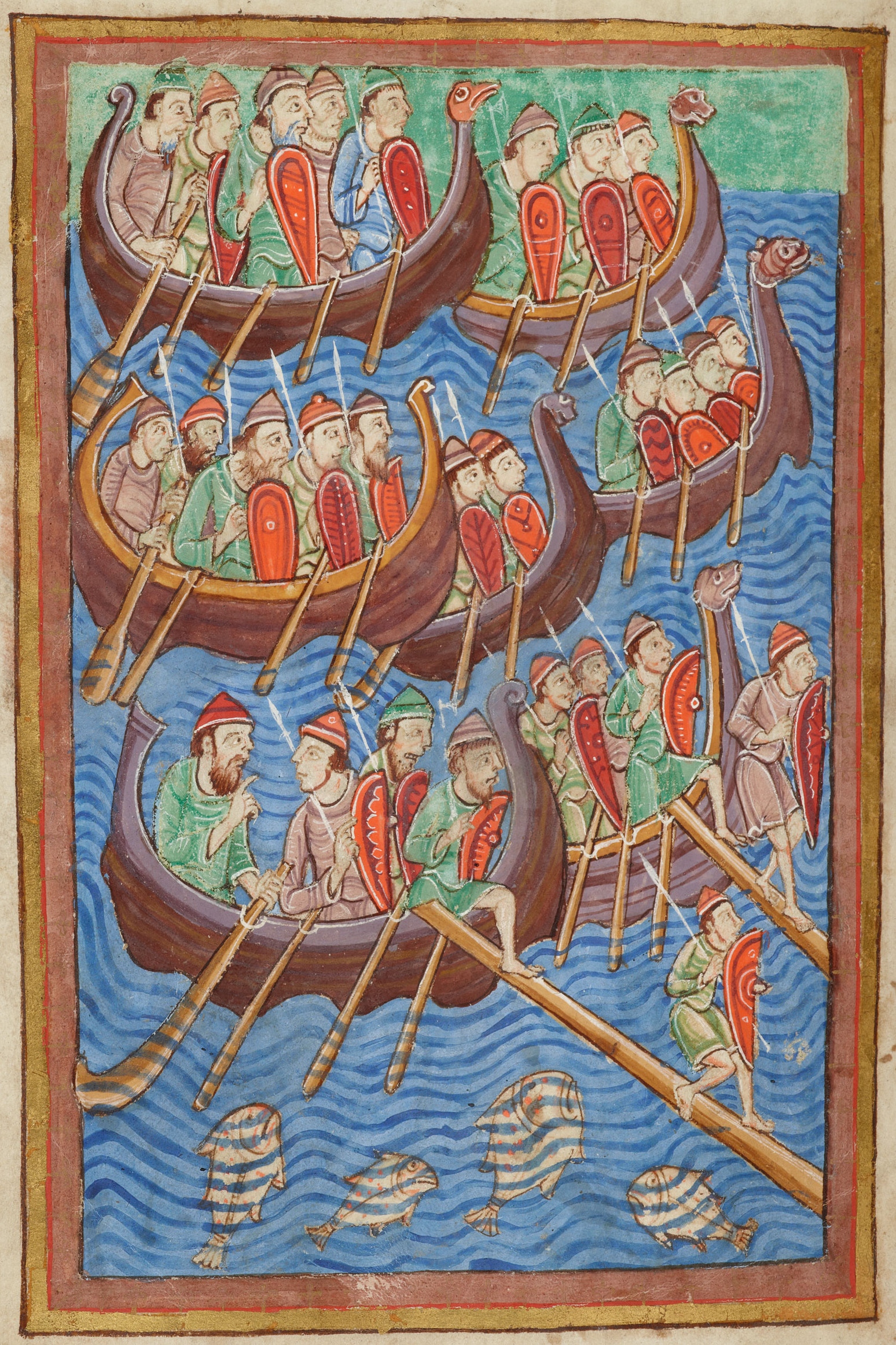 Illustration of invading Vikings on folio 9v of Pierpont Morgan Library MS M.736.